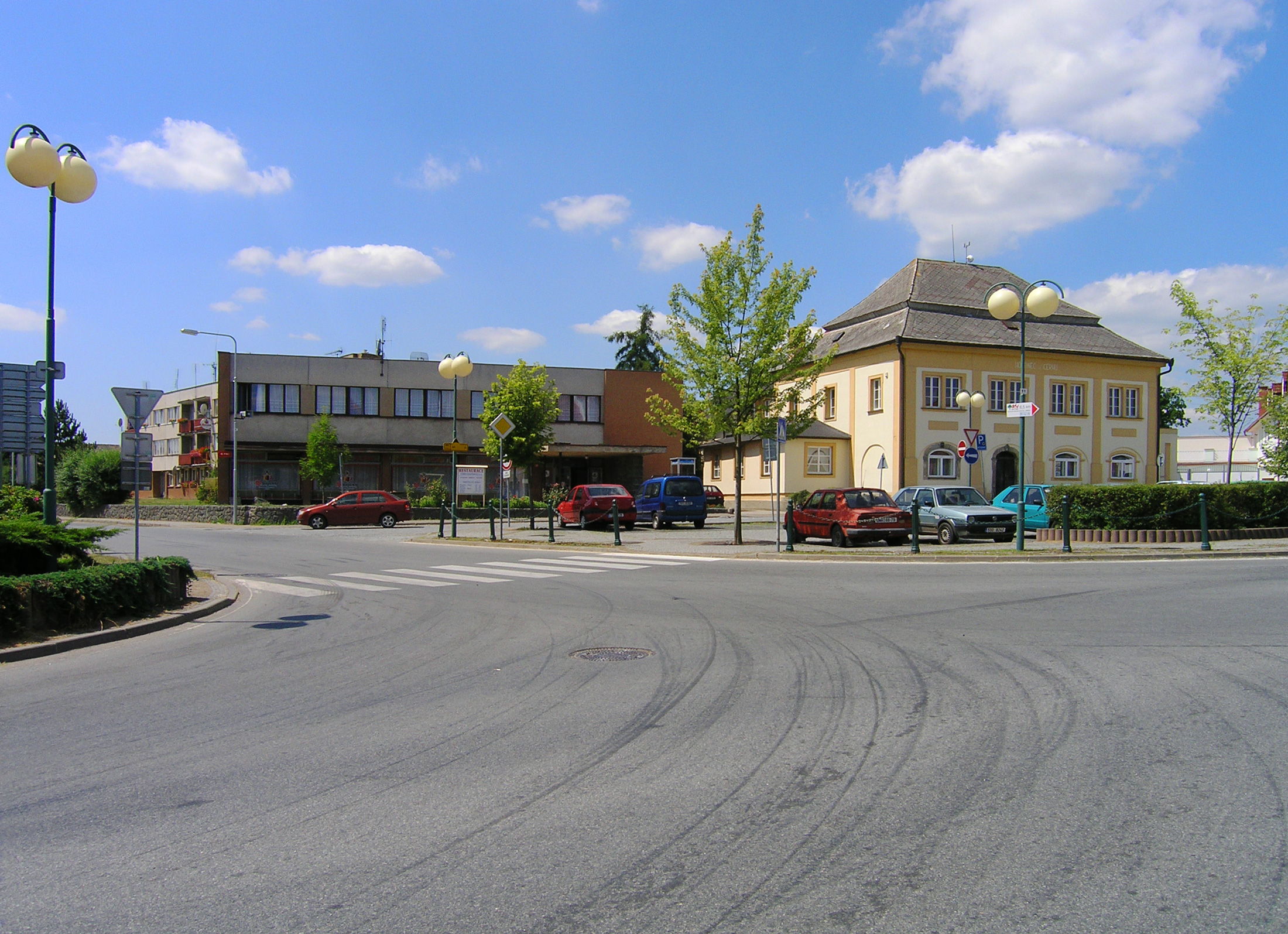 Na Rynku square in Kněžmost, Czech Republic